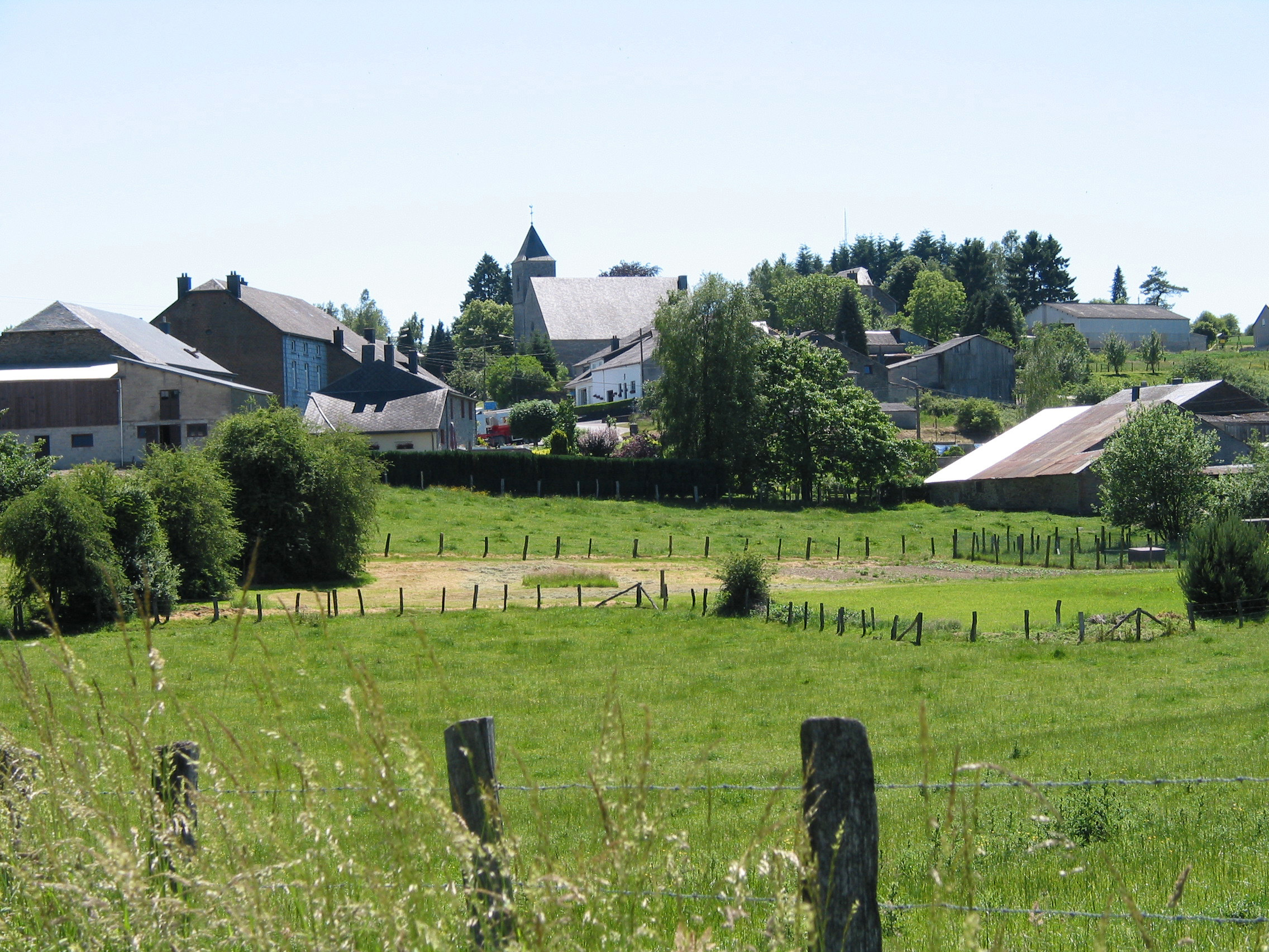 Houdremont(Belgium), overview of the village.